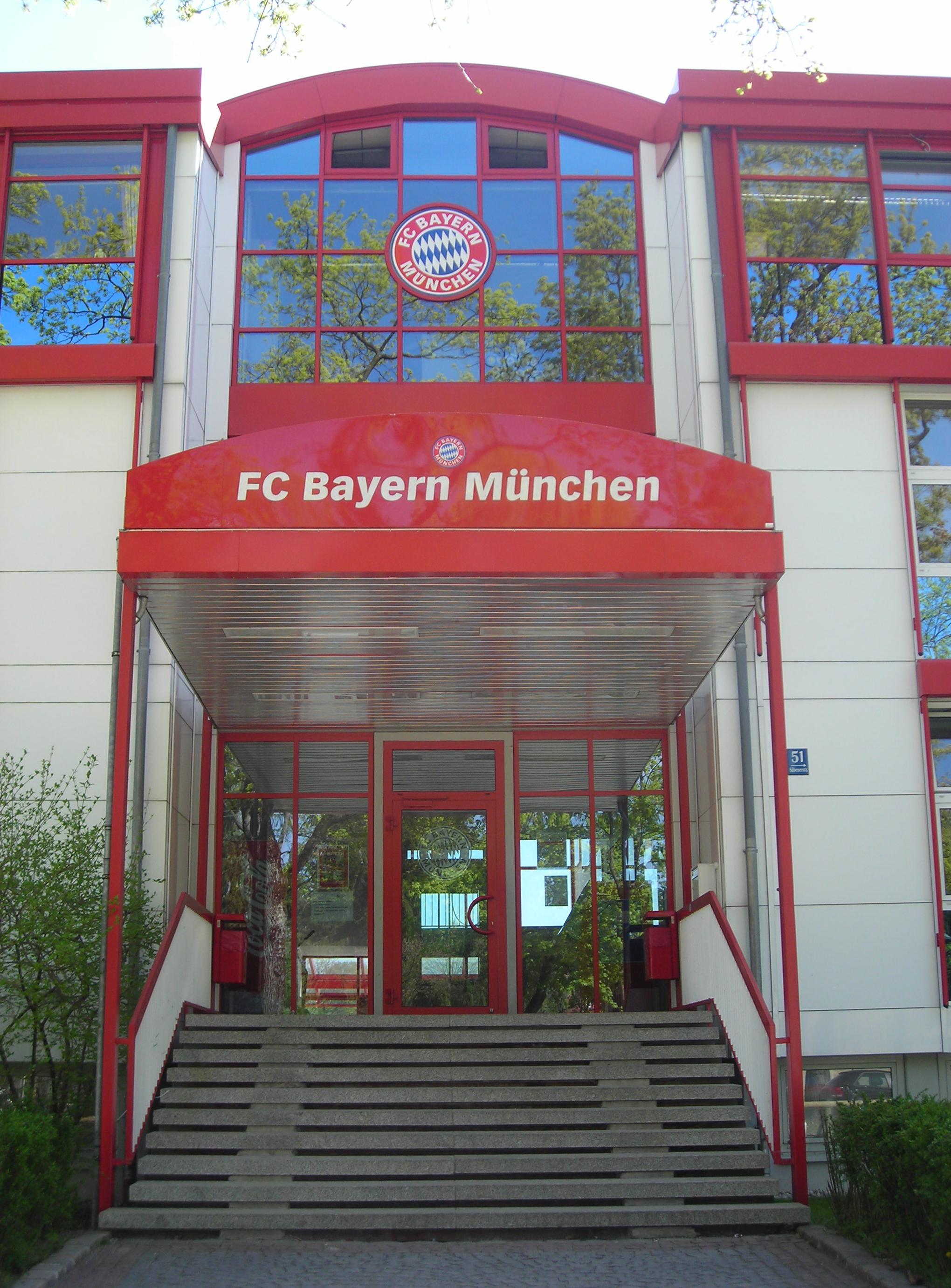 FC Bayern München Headquarters - Main entrance building at Säbener Str. 53, München, Germany.